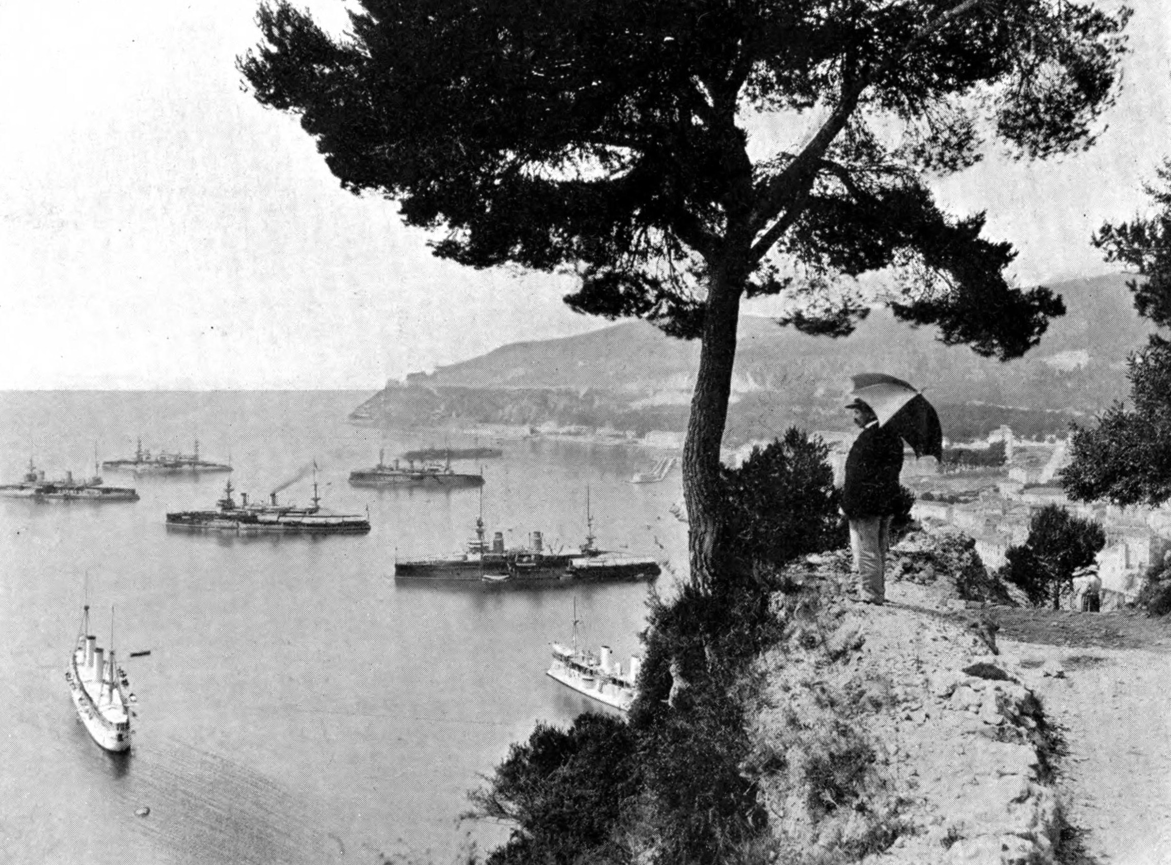 Image from a scanned version of the book "A Book of the Riviera" by Sabine Baring-Gould from Image has been cropped and sepia tone removed.